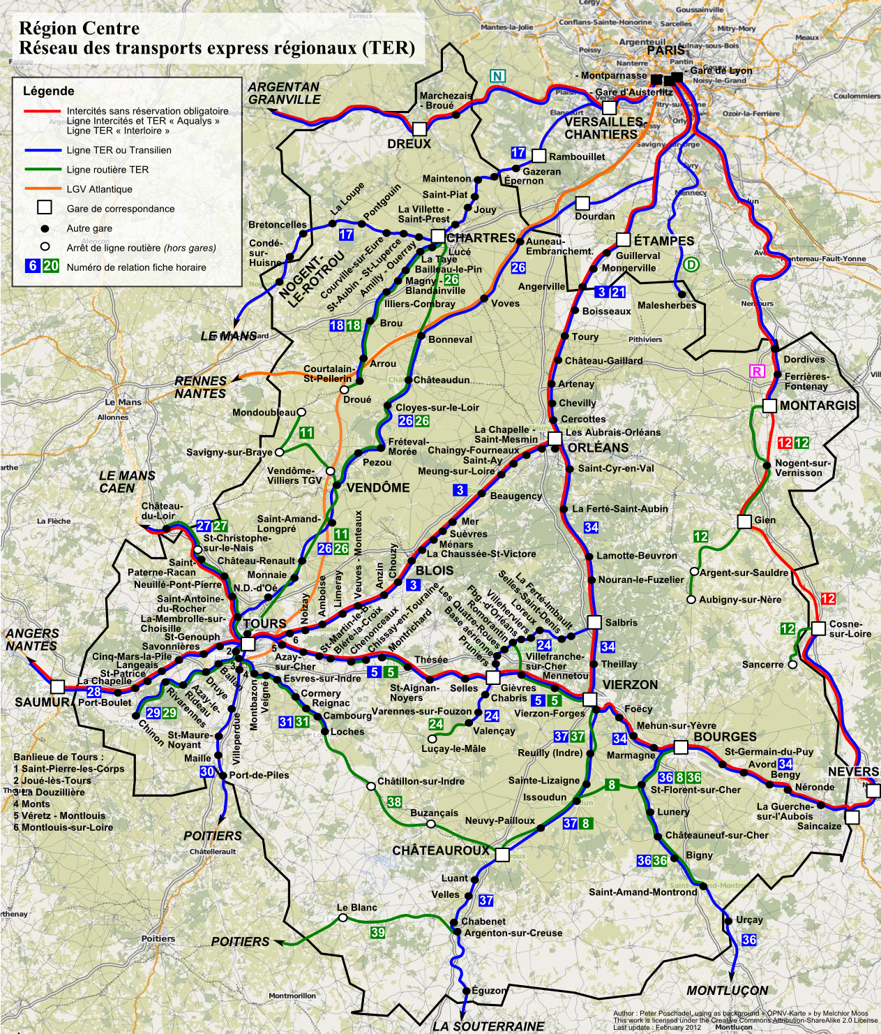 Region Centre, regional transport network (TER)